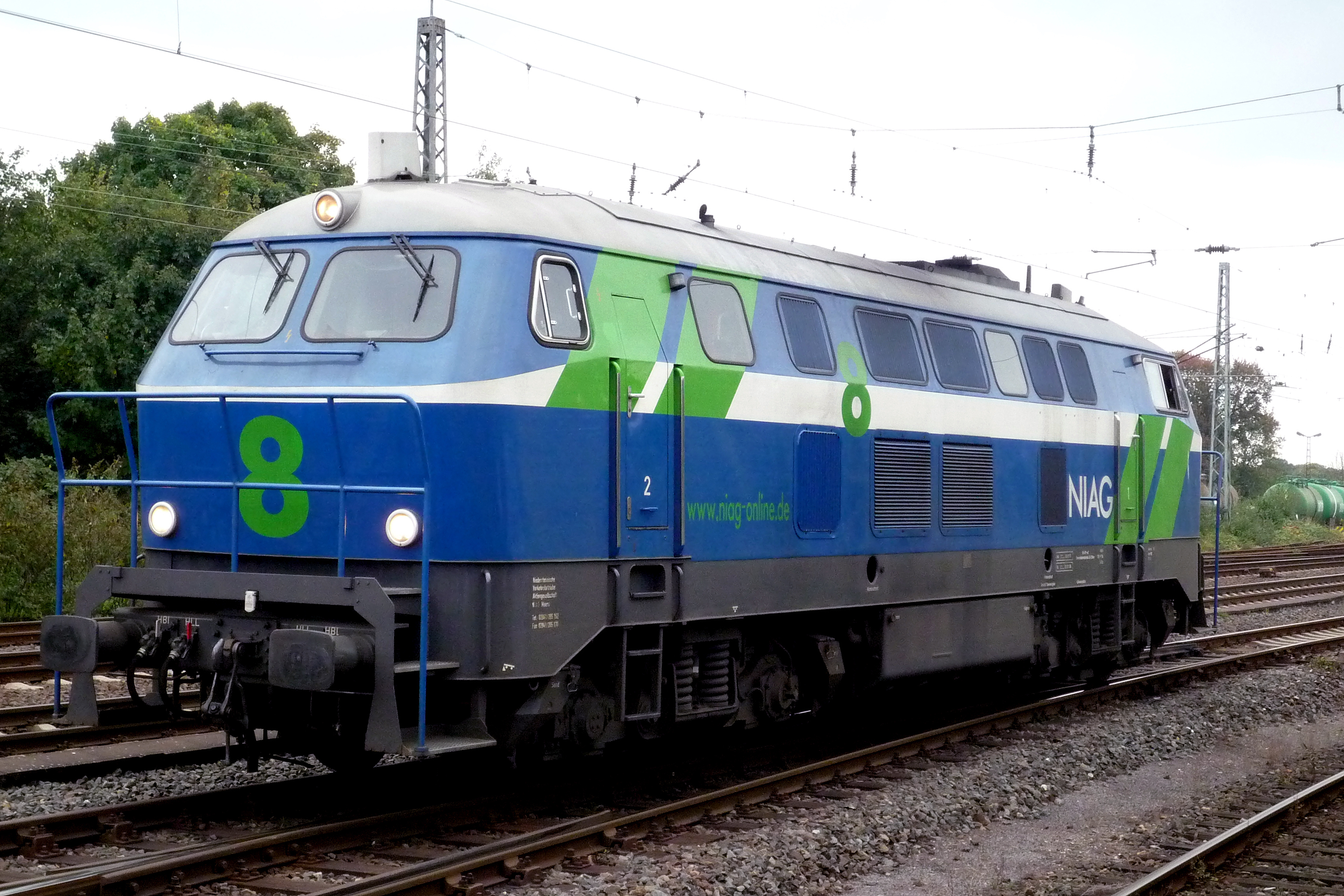 NIAG 8, ex DB 216 111-5 in Moers